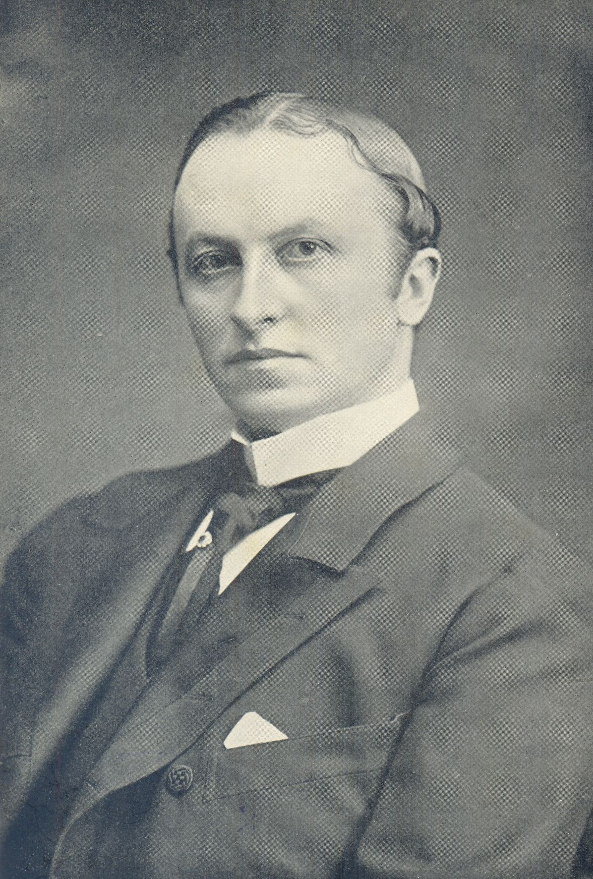 Lord Curzon of Kedleston